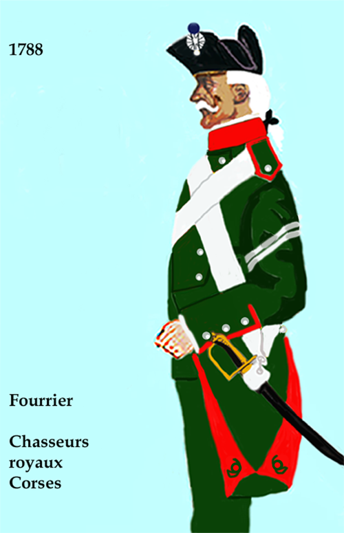 Uniforms of the french rifles of foot in 1788